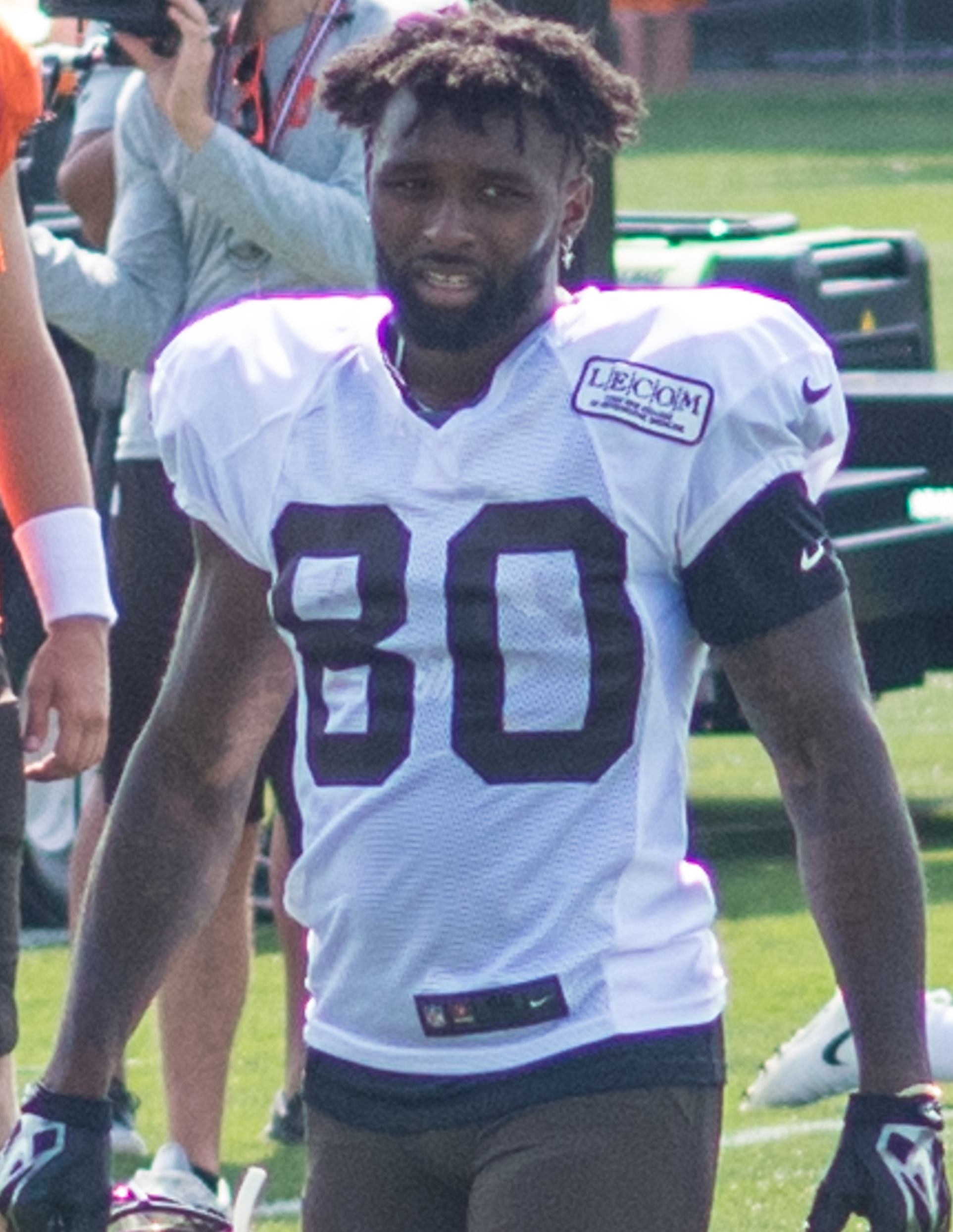 Jarvis Landry